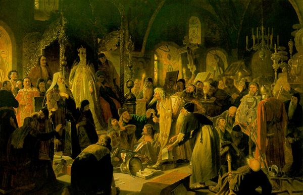 Nikita Pustosviat Disputing About Faith. (1880).